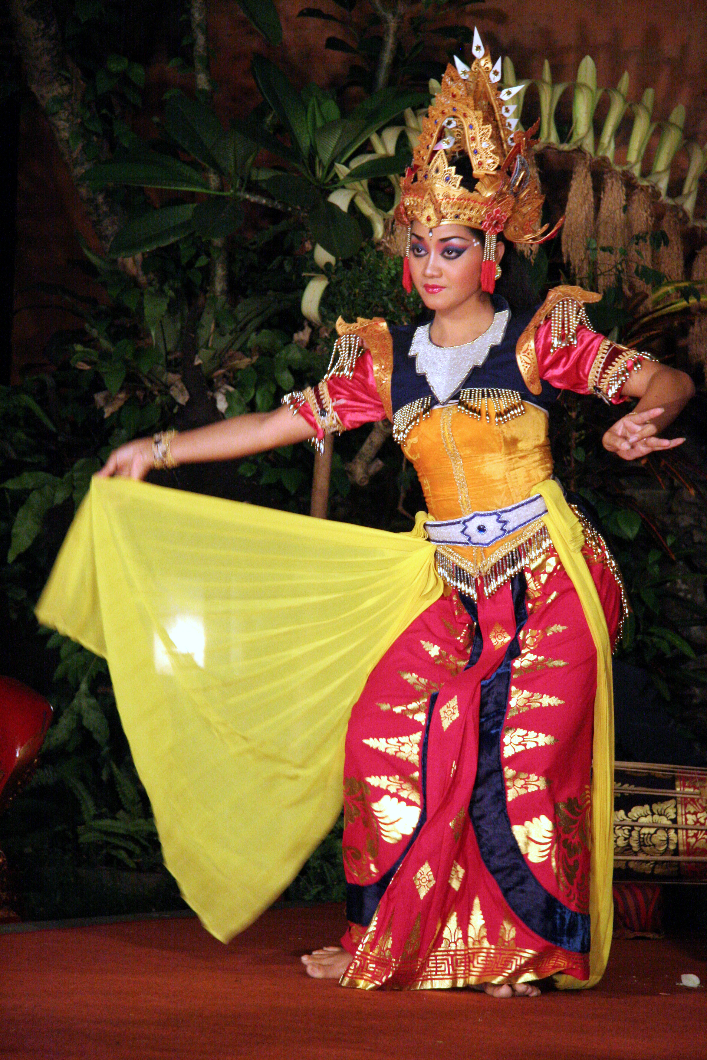 Dancer from Ubud, Bali